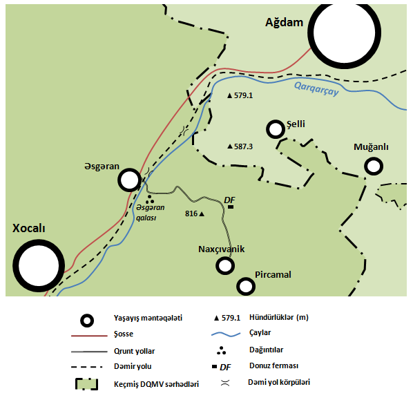 Map of the area where Massacre of Khojaly was committed by the ethnic Armenian armed forces, reportedly with help of some military personnel of the 366th CIS regiment. (In Azerbaijani) Map was based on the soviet map of 1981 According to eyewitnesses the dead bodies were on the streets of Khojaly (see photos of V. Ivleva), found near the Askeran bridge (see the words and the video footage of S. Movsumov) and near the Pig farm on 25 m of Askeran-Nakhchivanik road (see the words and video footage Ch. Mustafayev). Askeran and Nakhchivanik were under Armenian forced control at that time.